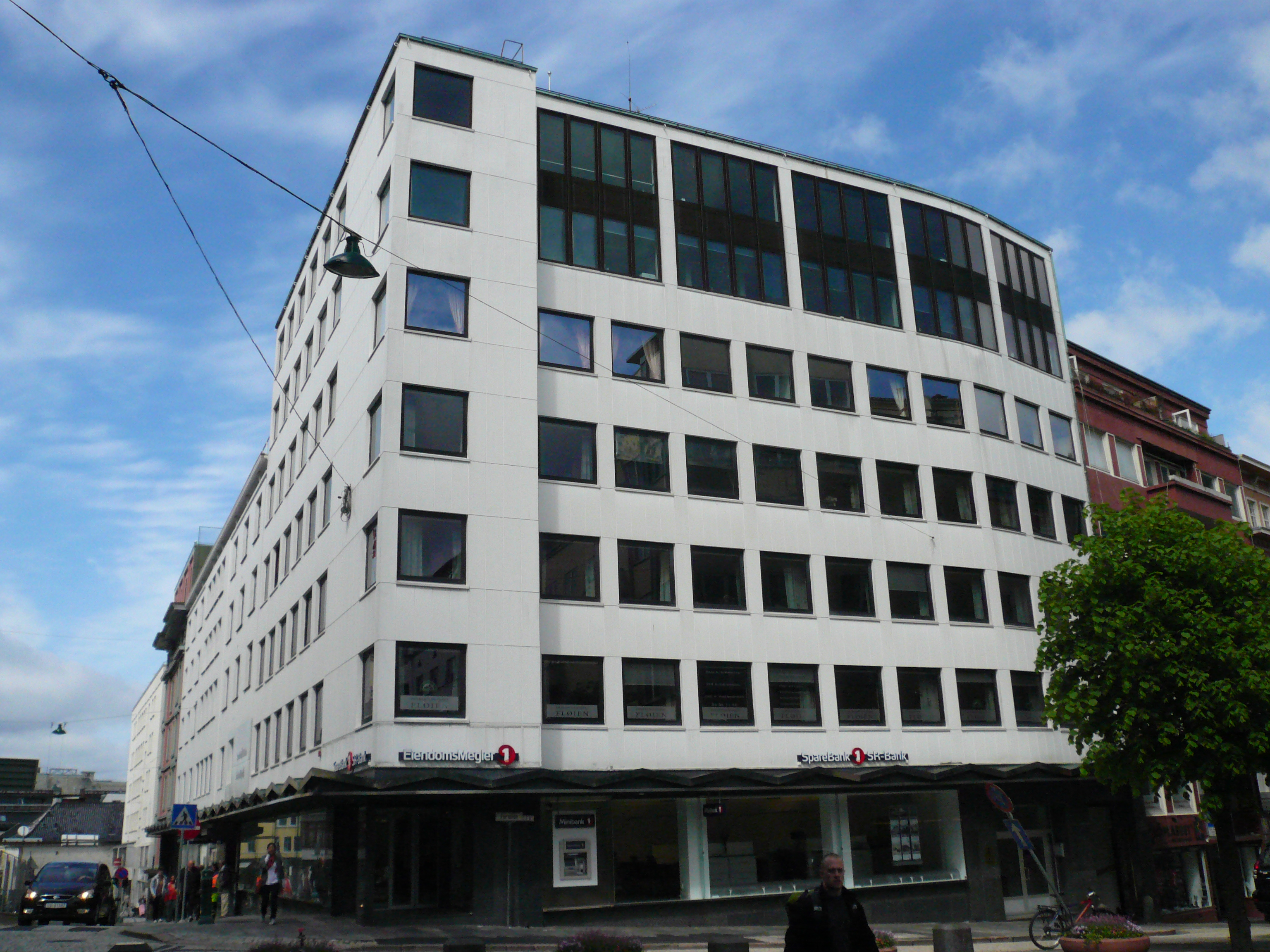 Leif Grung, bygård Fortunen, Fortunen 7, Bergen.